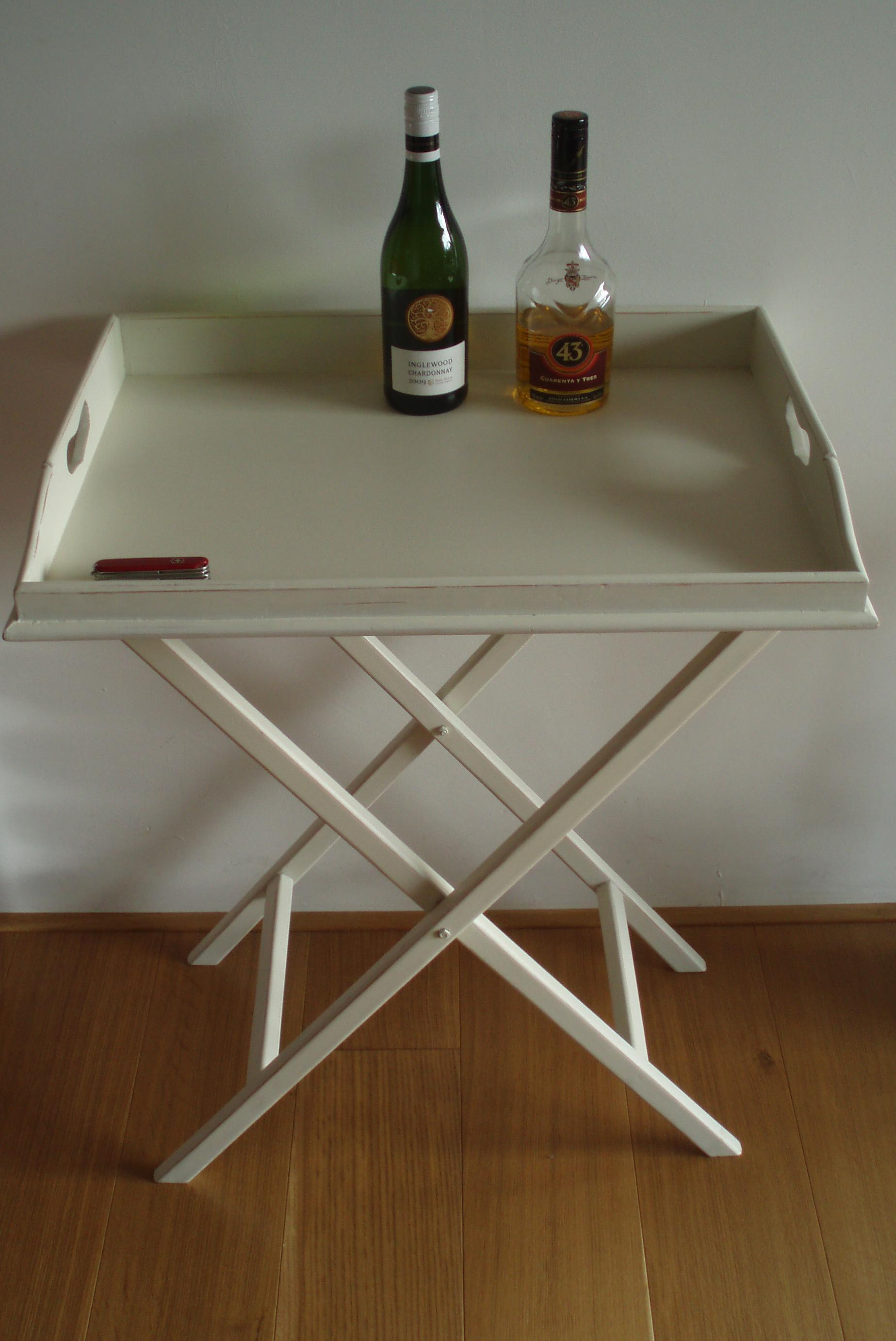 Butler's tray, tray stand